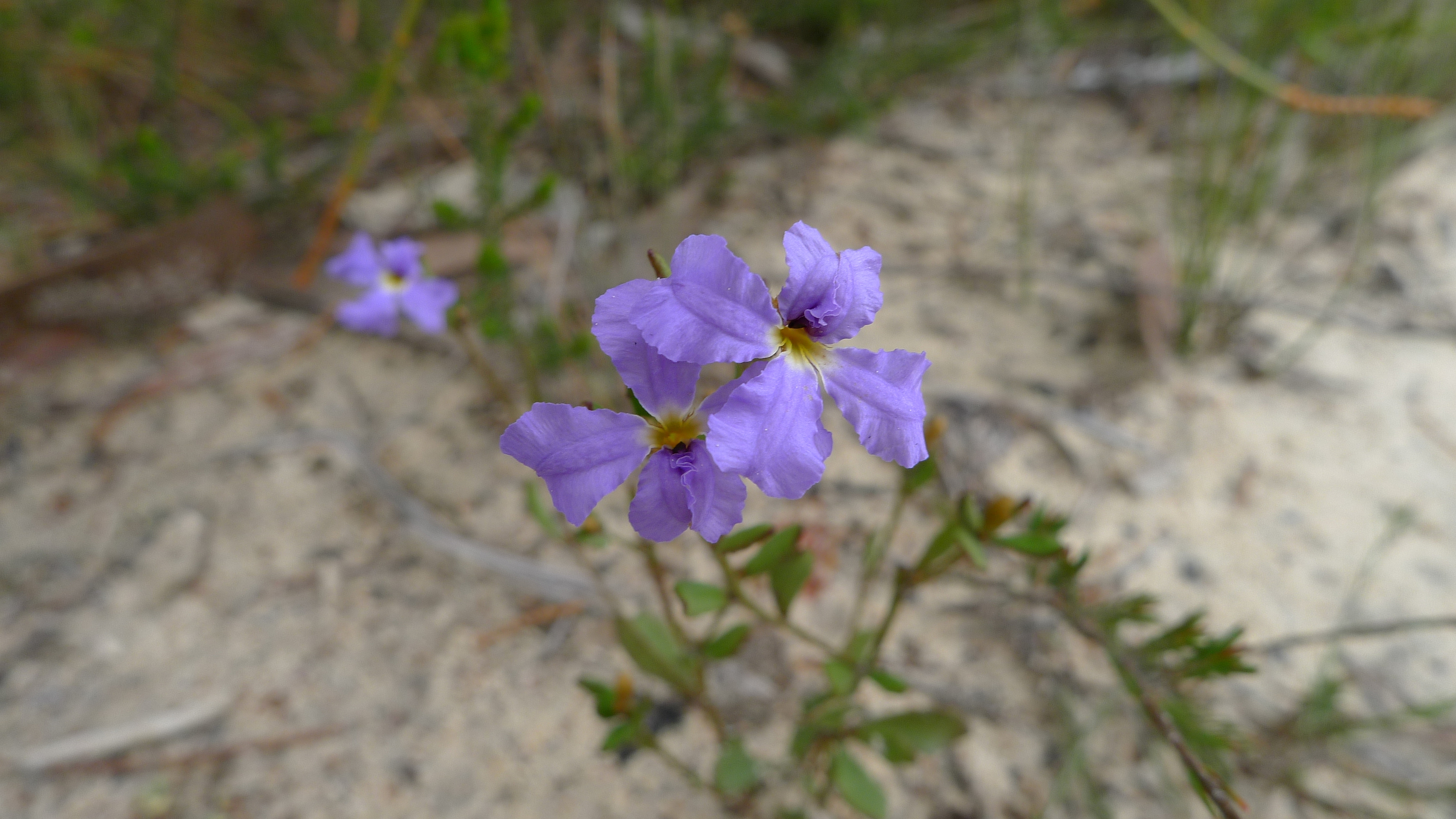 Blue Dampiera, Dampiera stricta. Royal National Park, NSW Australia, August 2011.